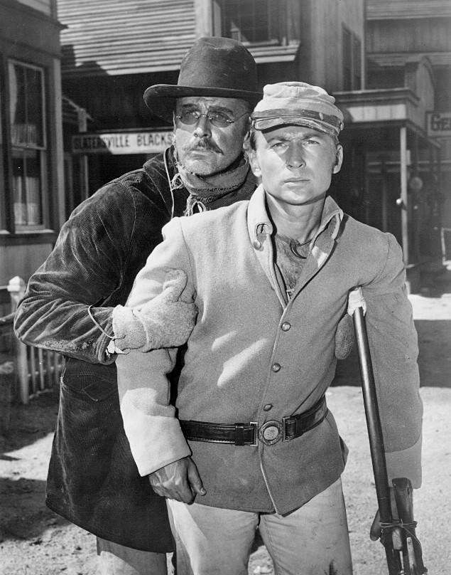 Photo of Nick Adams as Johnny Yuma and John Dehner as his uncle, John Sims, from the Western television program The Rebel.